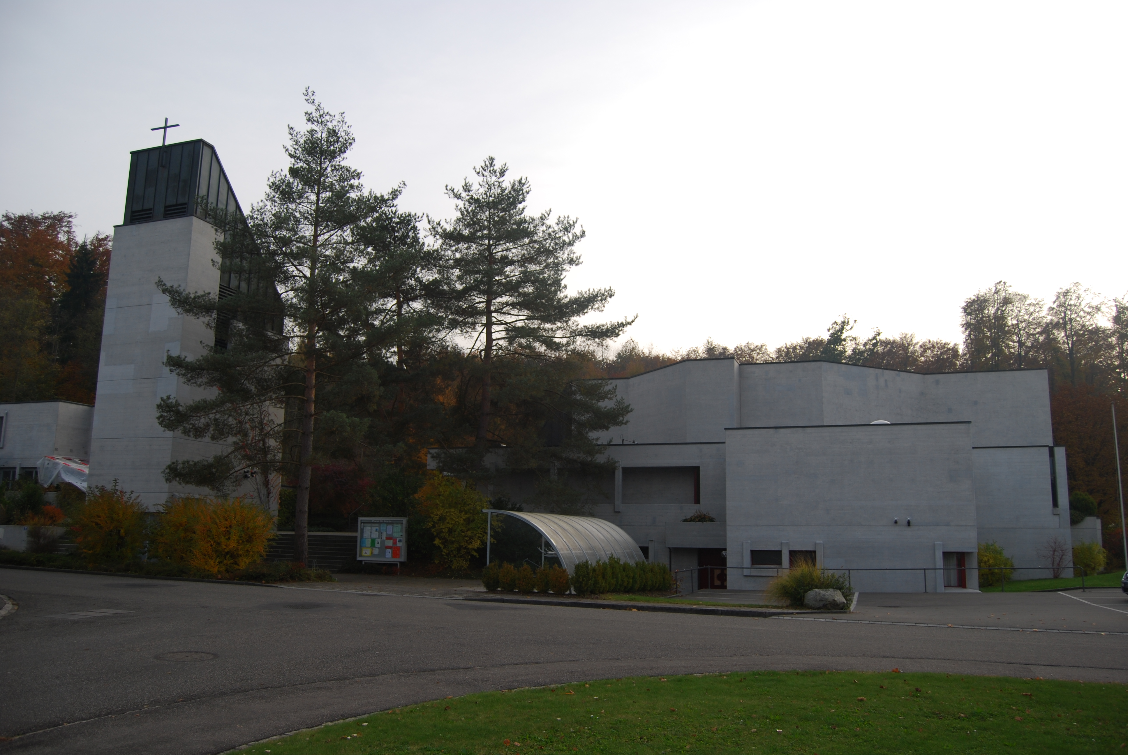 Catholic Church St. Martin at Seuzach, canton of Zürich, SwitzerlandEsperanto: Katolika preĝejo Sankt-Martino en Seuzach, Kantono Zuriko, Svislando